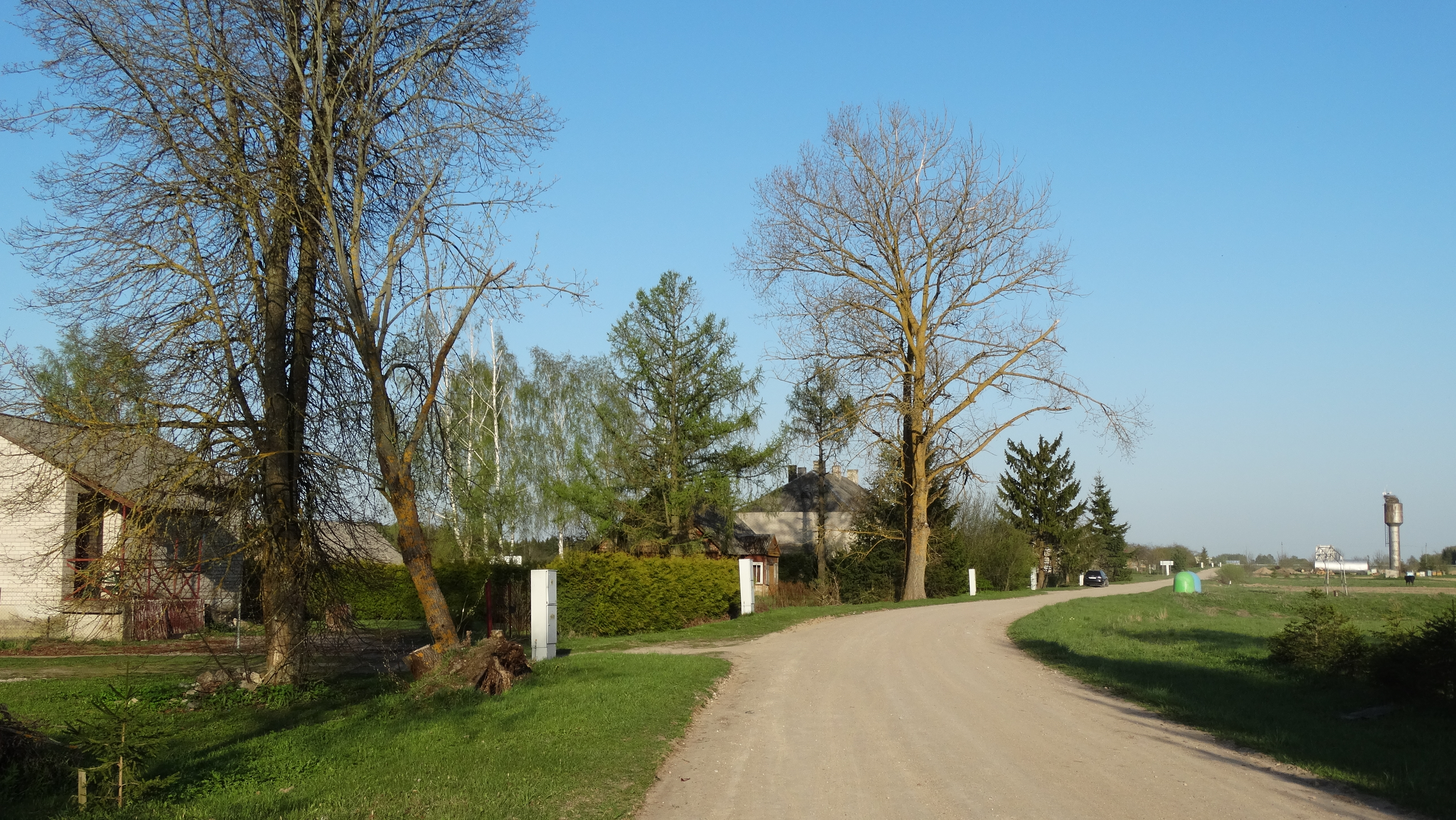 Žemosios Viesos, Širvintos District, Lithuania